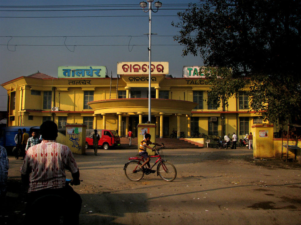 Talcher Station Front view